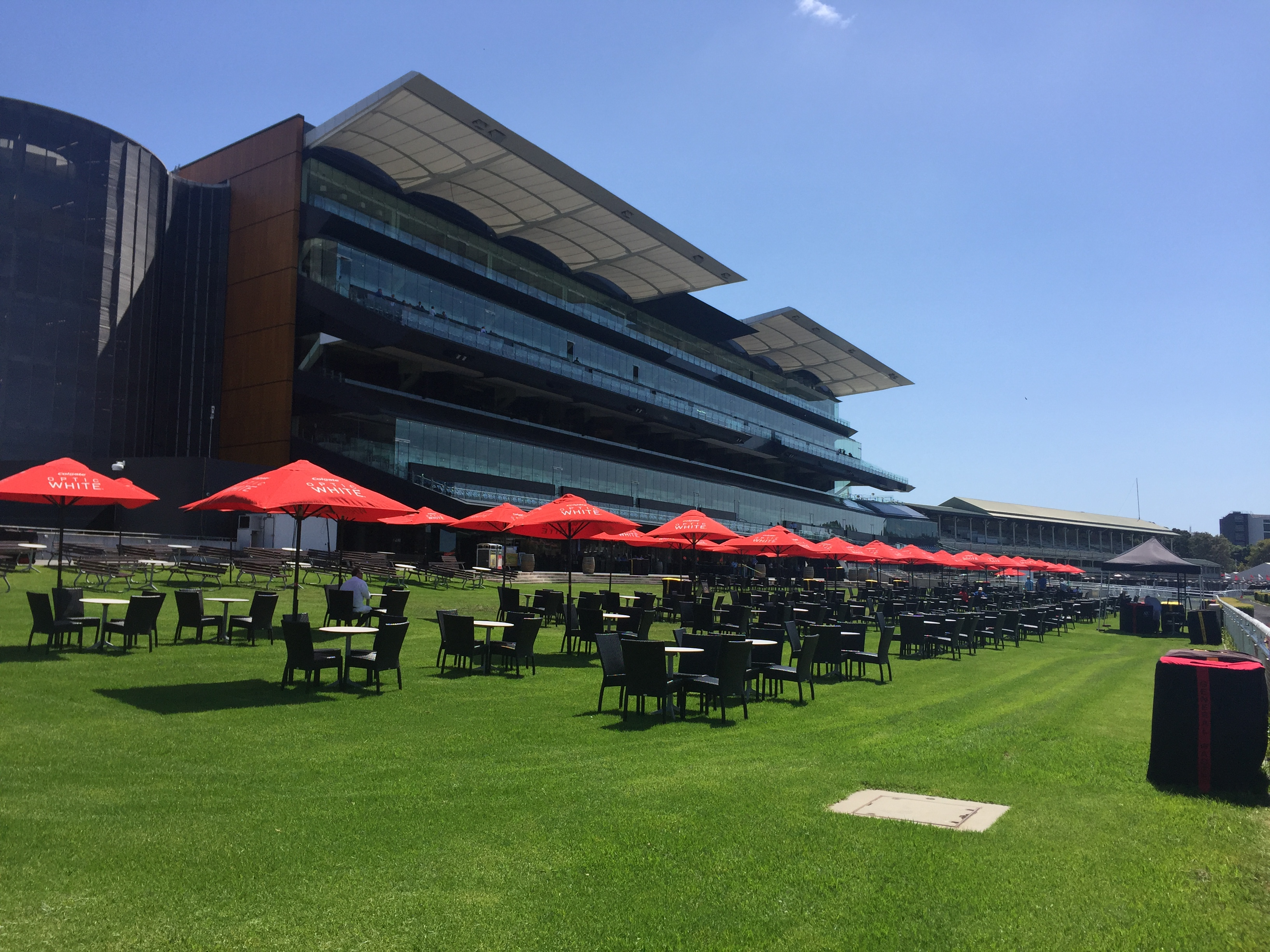 Royal Randwick Racecourse, the Queen Elizabeth II stand